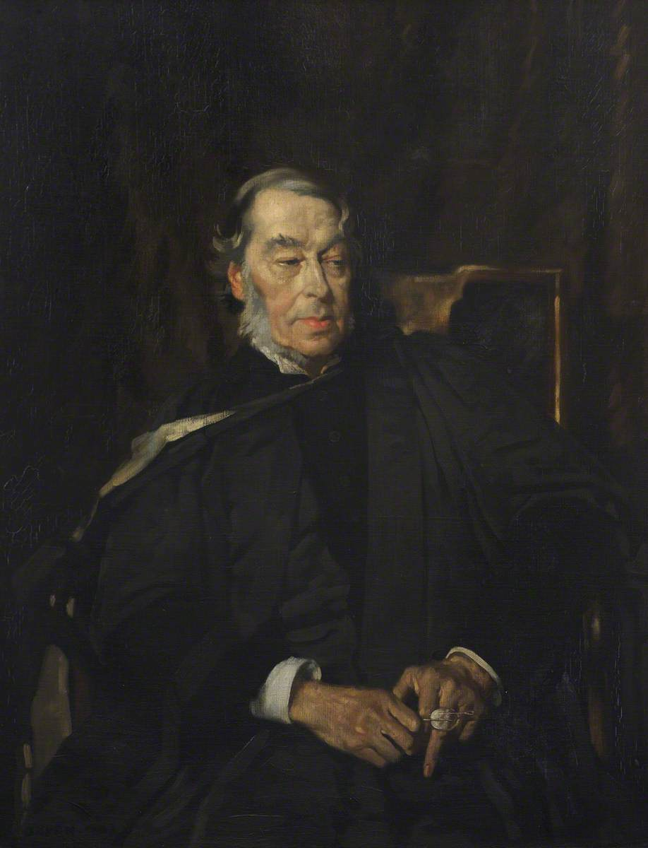 Joseph Bickersteth Mayor (1828–1916), Deacon of Ely; St John's College, University of Cambridge, by William Orpen